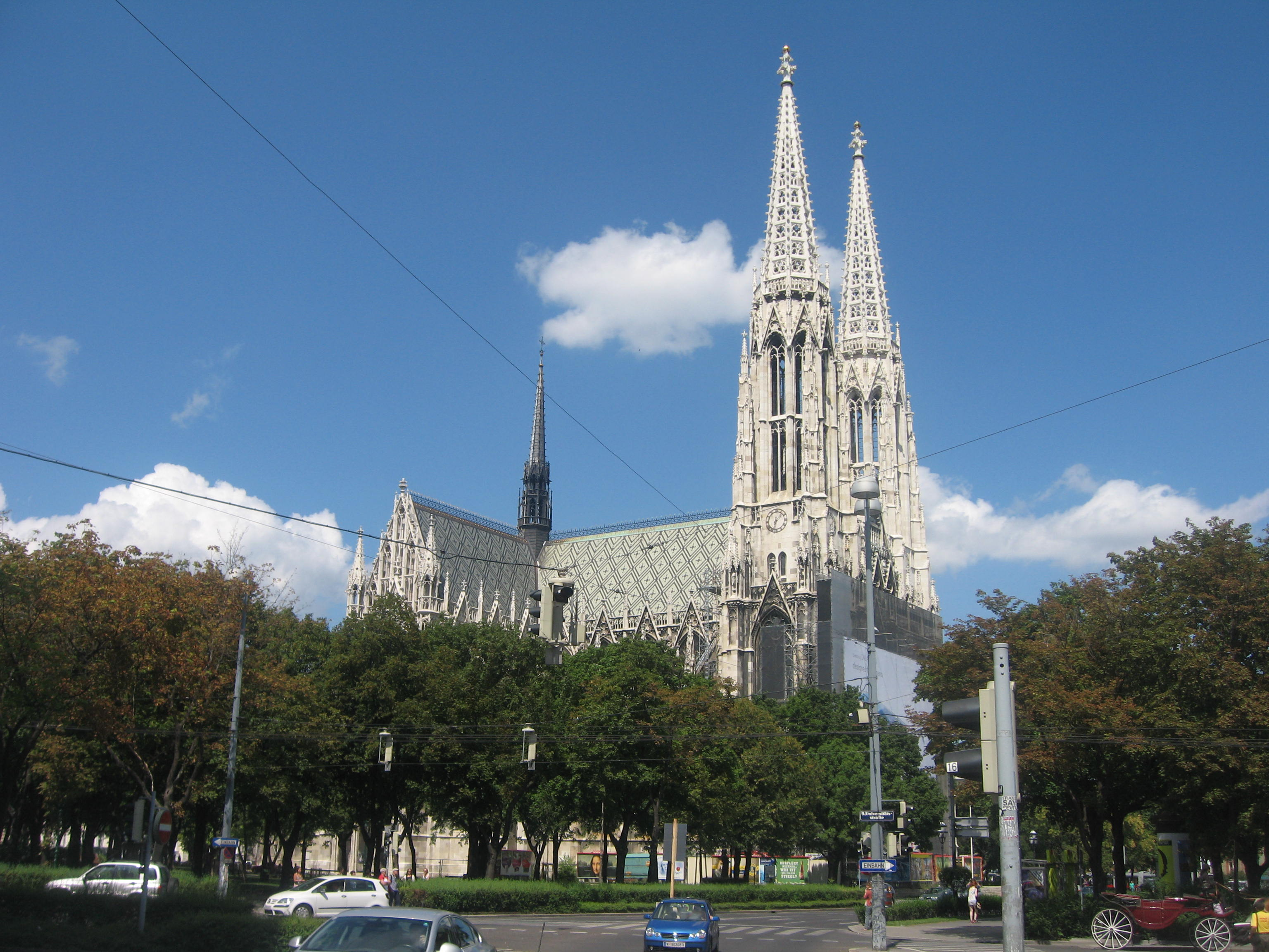 Votive Church, Vienna